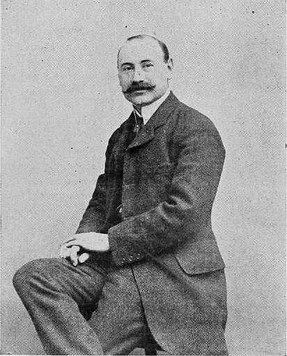 Cropped from the source shown, sharpened and converted to greyscale with GIMP.